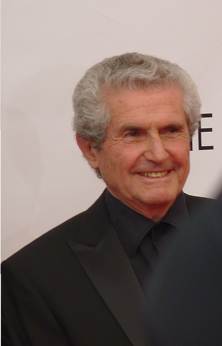 Claude Lelouch at the 2012 Monte-Carlo Television Festival.